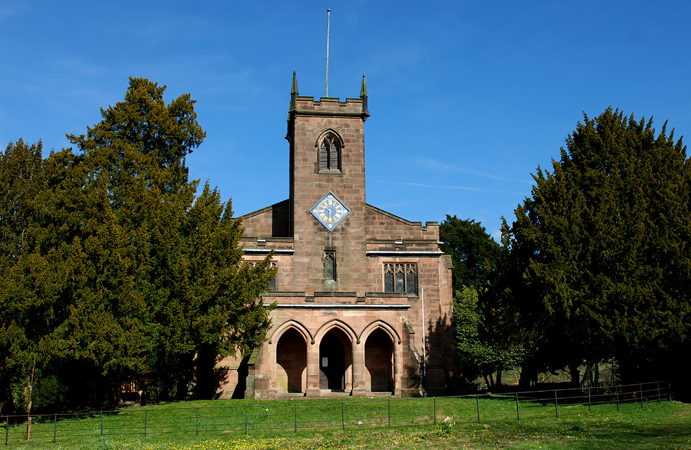 St Mary's parish church, Cromford, Derbyshire, seen from the west